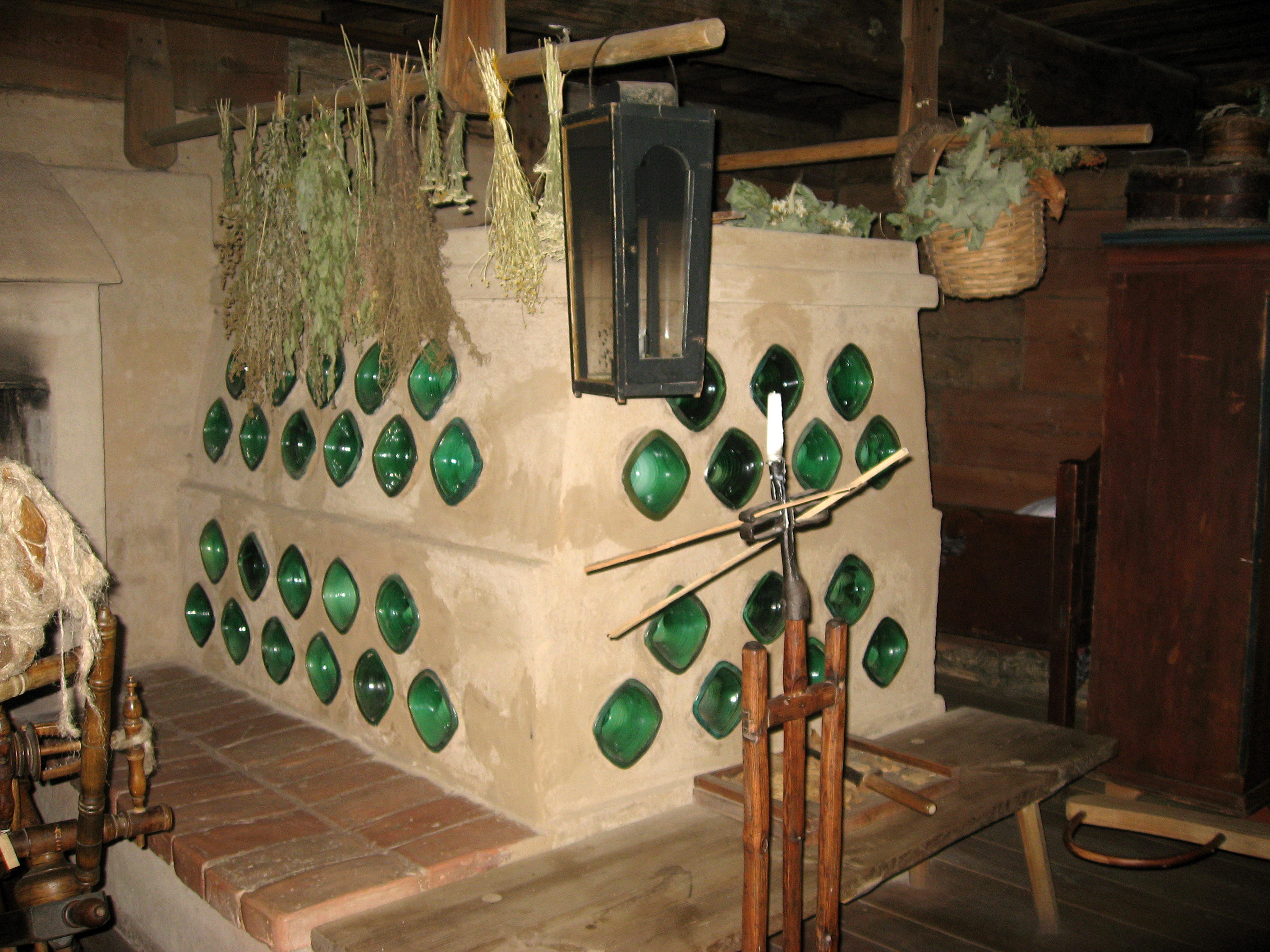 Tiled stove in a house rebuilt at Latvian Ethnographic Open-Air Museum